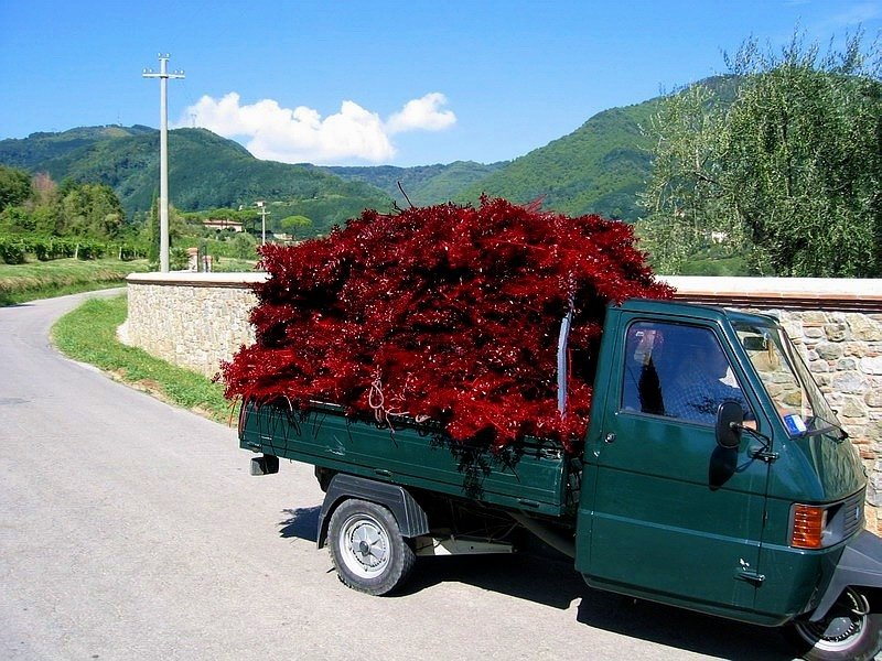 Piaggio Ape loaded (with ??) in Lucca, Tuscany, Italy